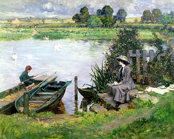 The Thames At Benson